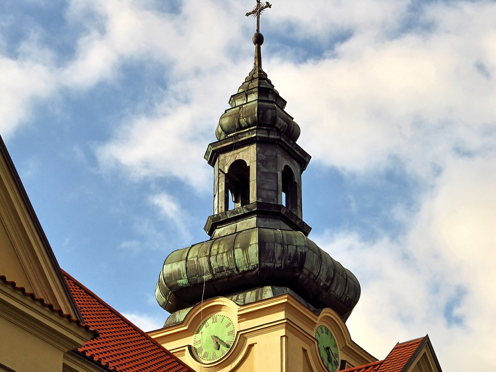 The tower of the church in Pinczynie